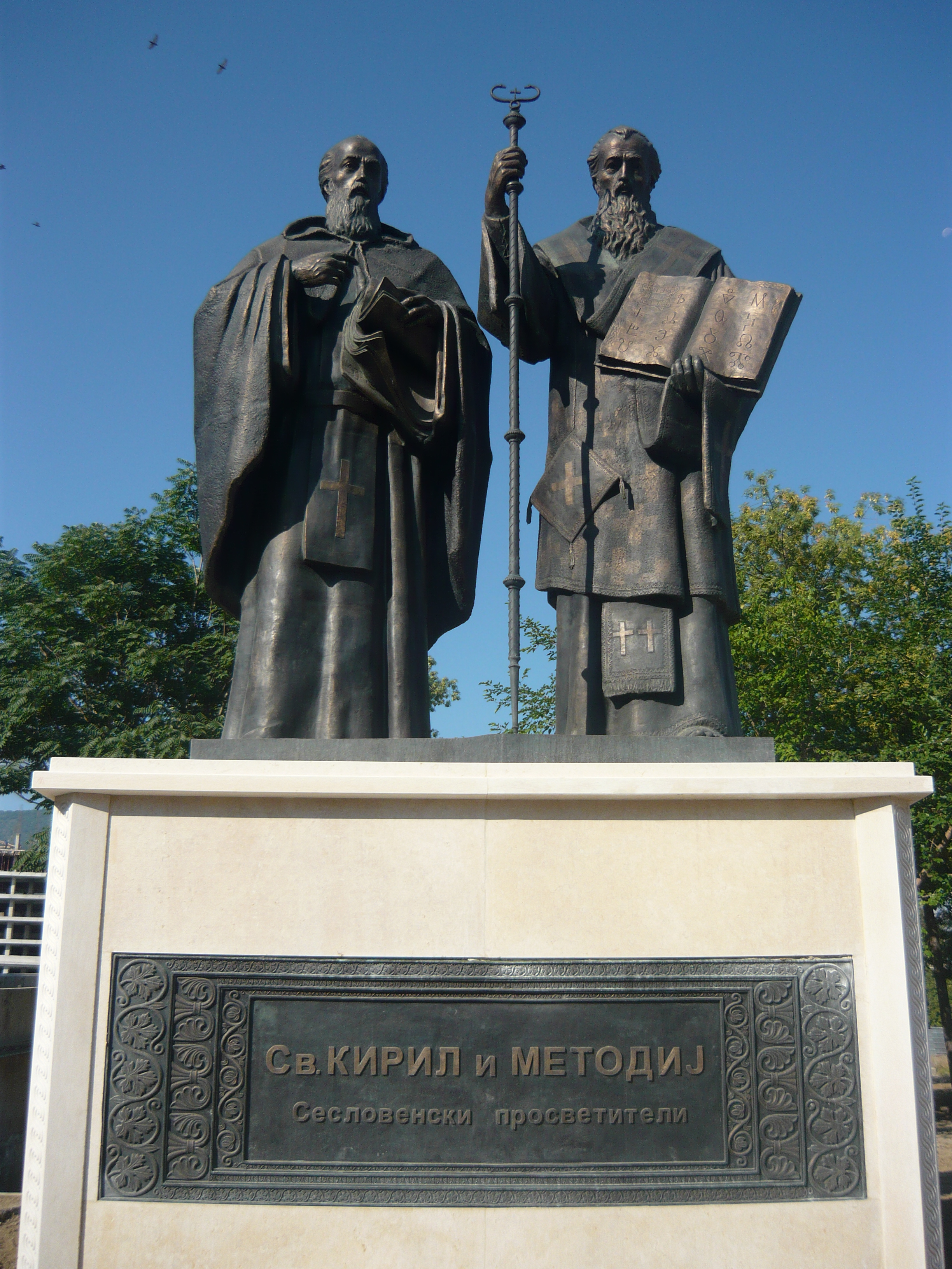 Monument of Kiril and Metodij in Macedonia, Skopje